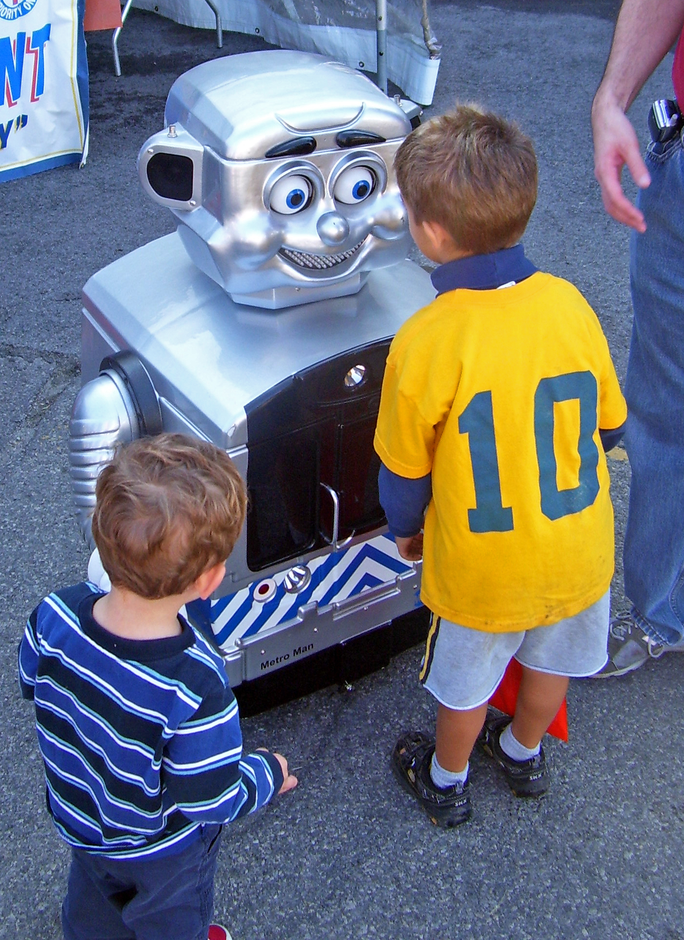 Metro-Man, mascot of Metro-North, at the commuter railroad's October 2007 Open House. He educates children about train safety.